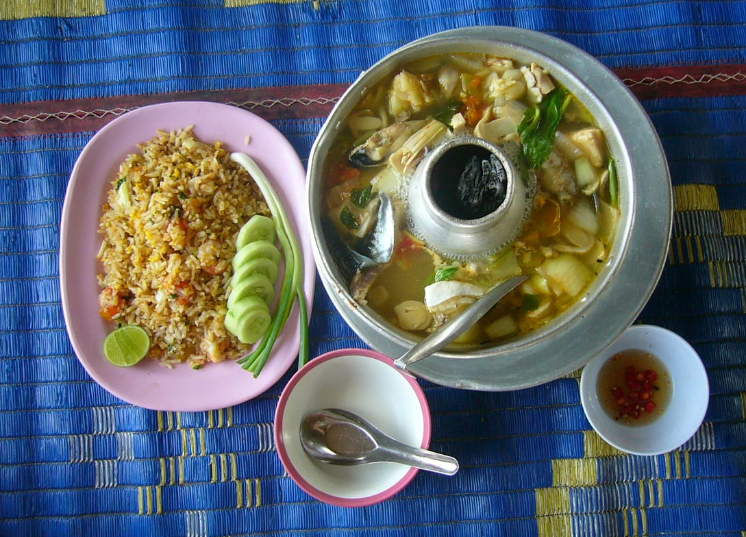 Tom Yam Pla Buek, a Thai sour-hot soup with Mekong Catfish and side dishes for several servings.